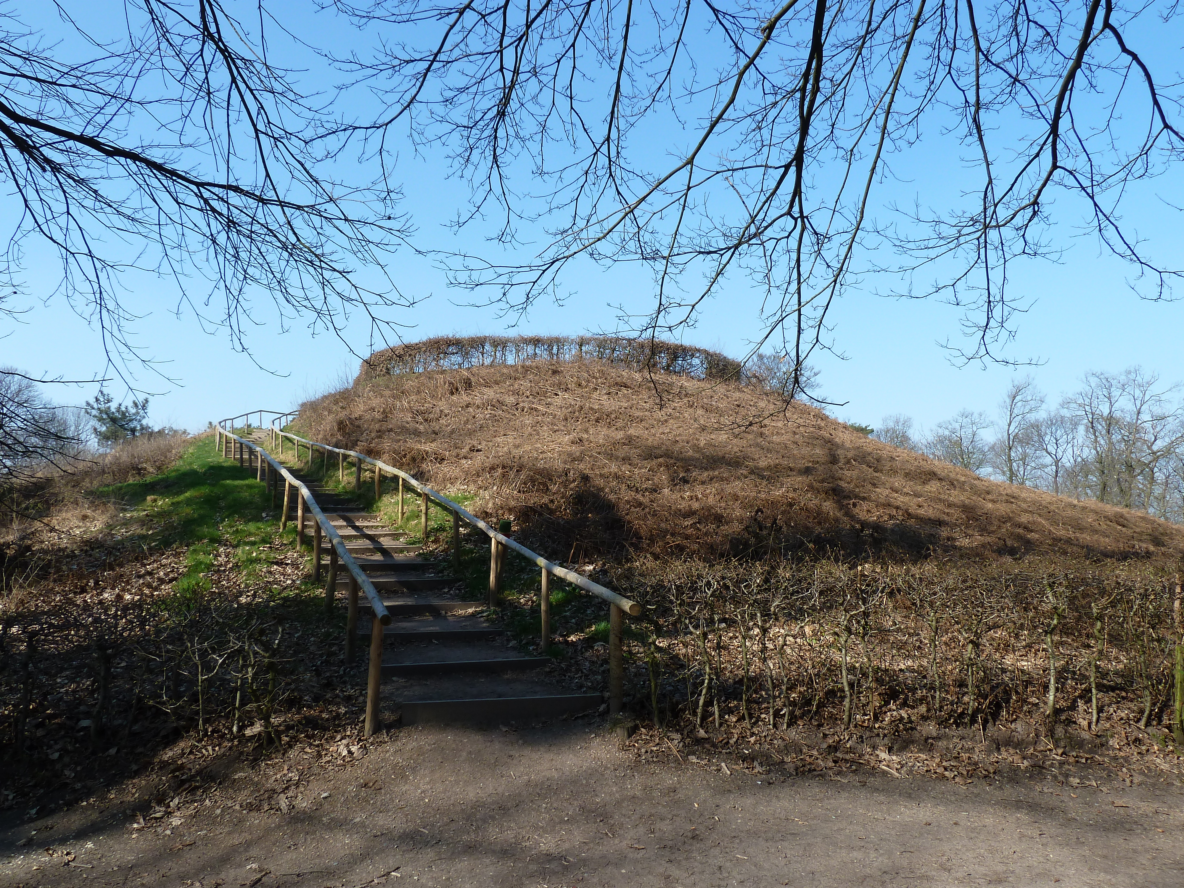 Devil's Mountain (Duivelsberg), Beek, Ubbergen, Gelderland, the Netherlands